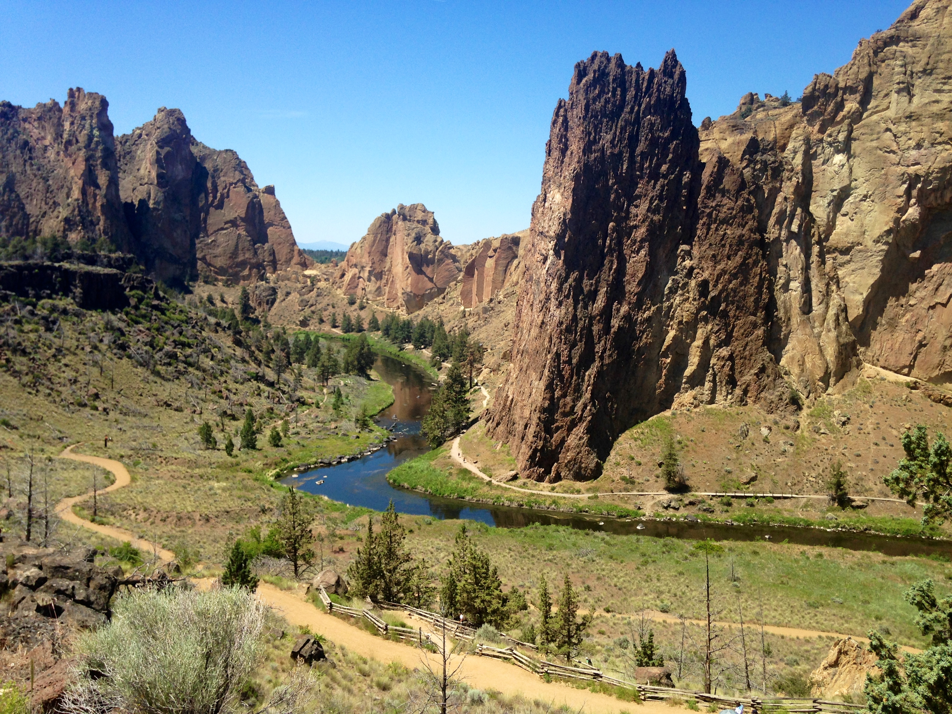 Photo of Smith Rock and the Crooked River taken in the early afternoon close to the starting point of a trail.